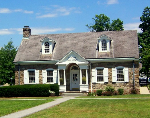 Photographed on 2005-07-20 by Daniel Case.